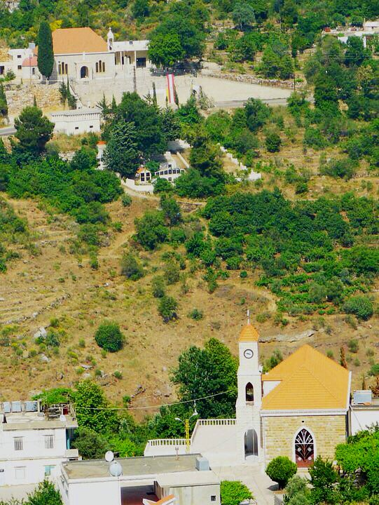 Mar Abda (Saint Abdas) church in the foreground and Our Lady church in Mazraet es-Siyad, Lebanon